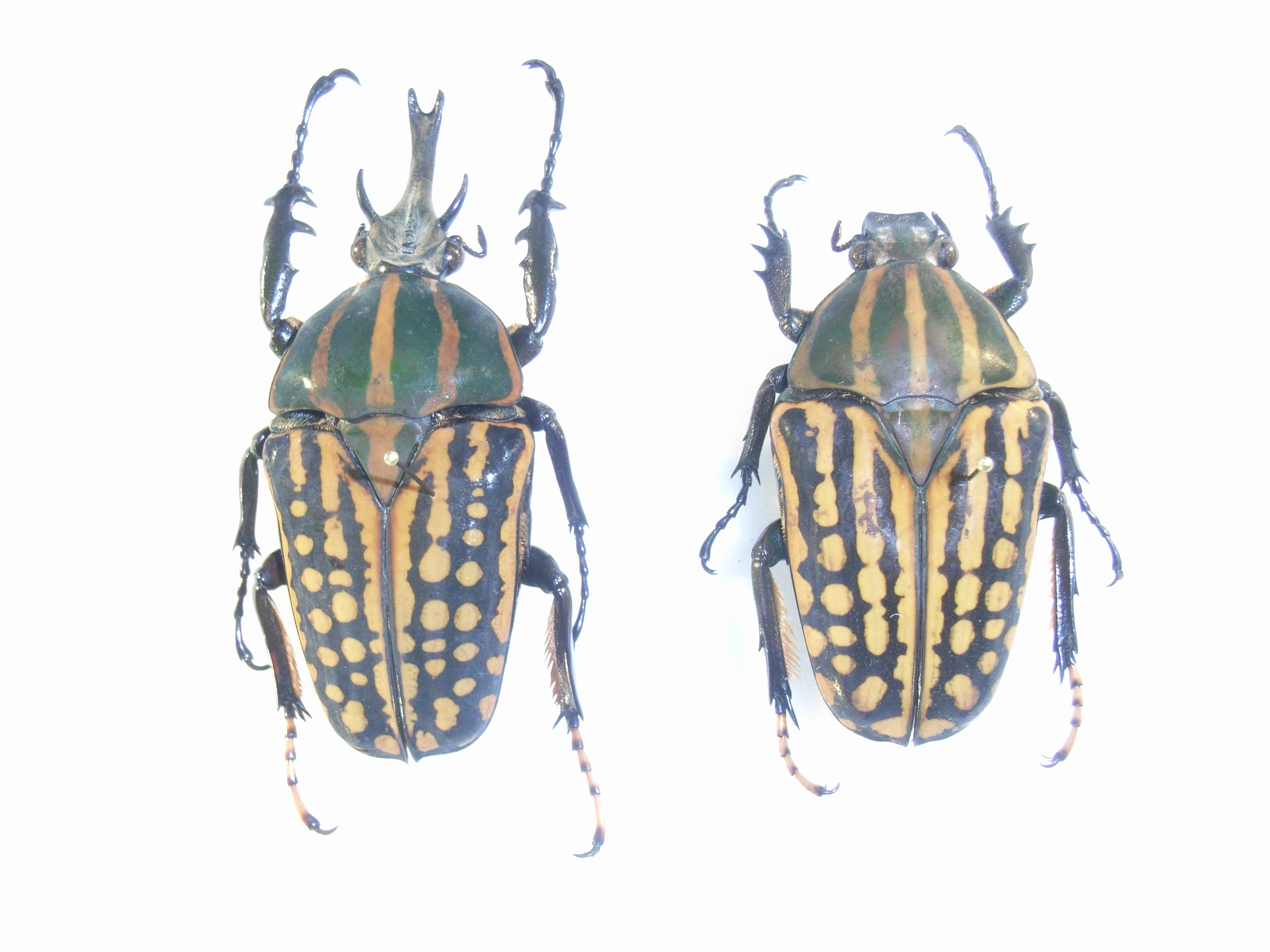 Chelorrhina savagei Pair Ex coll. Felix Stumpe